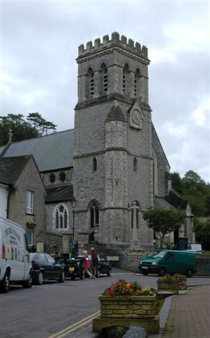 Beer church. Beer, Devon